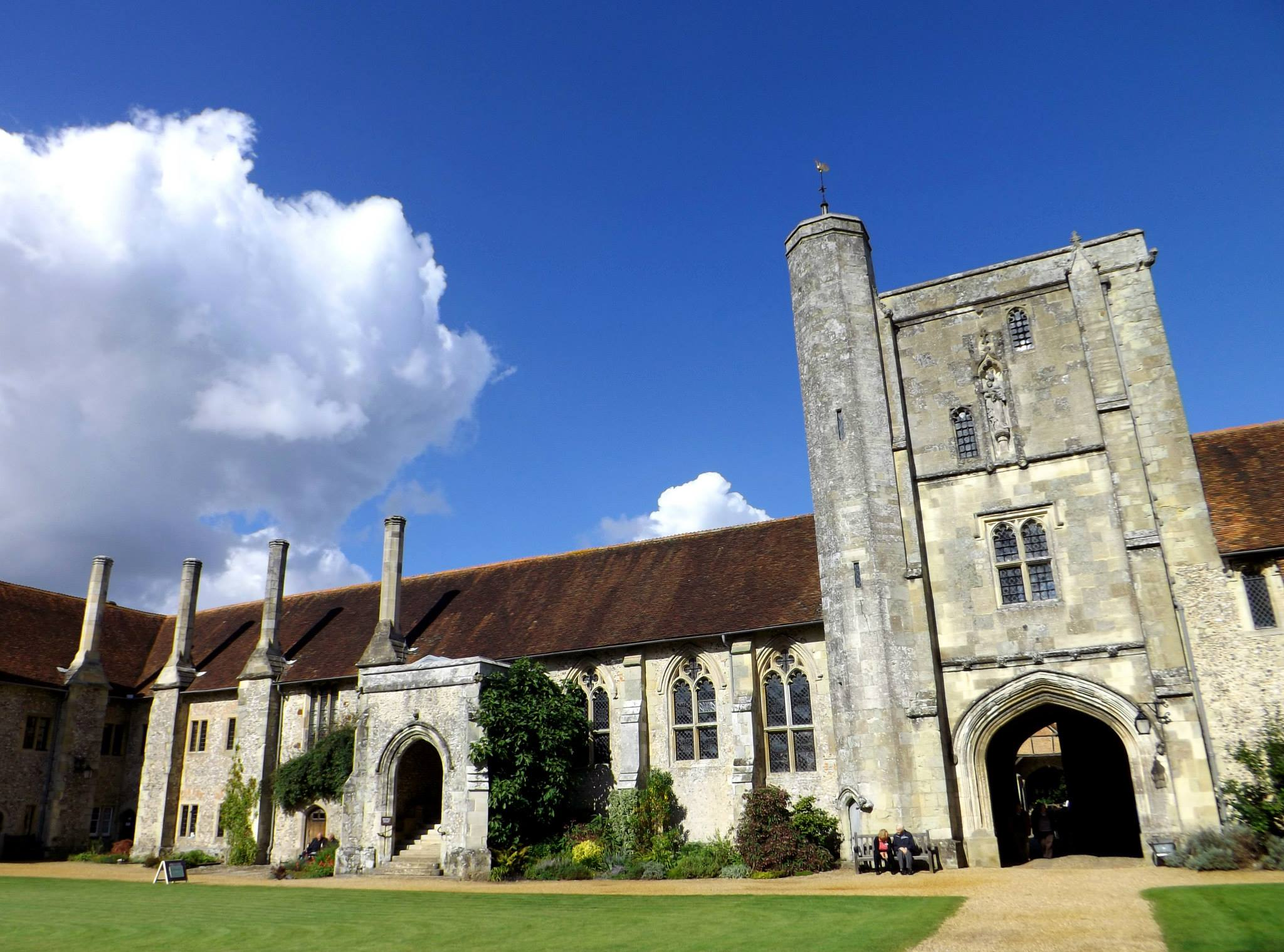 The Hospital of St Cross